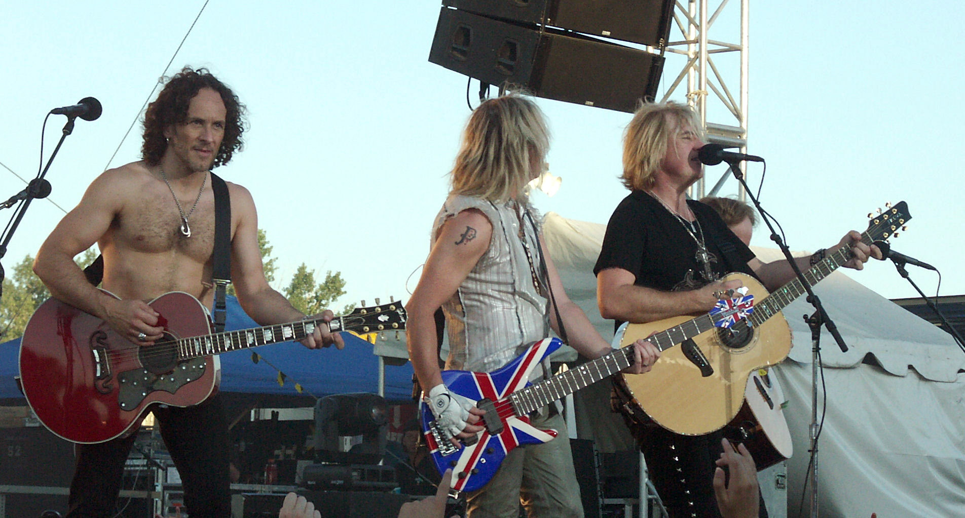 Band Def Leppard performing in Minot, North Dakota, US on July 26, 2007